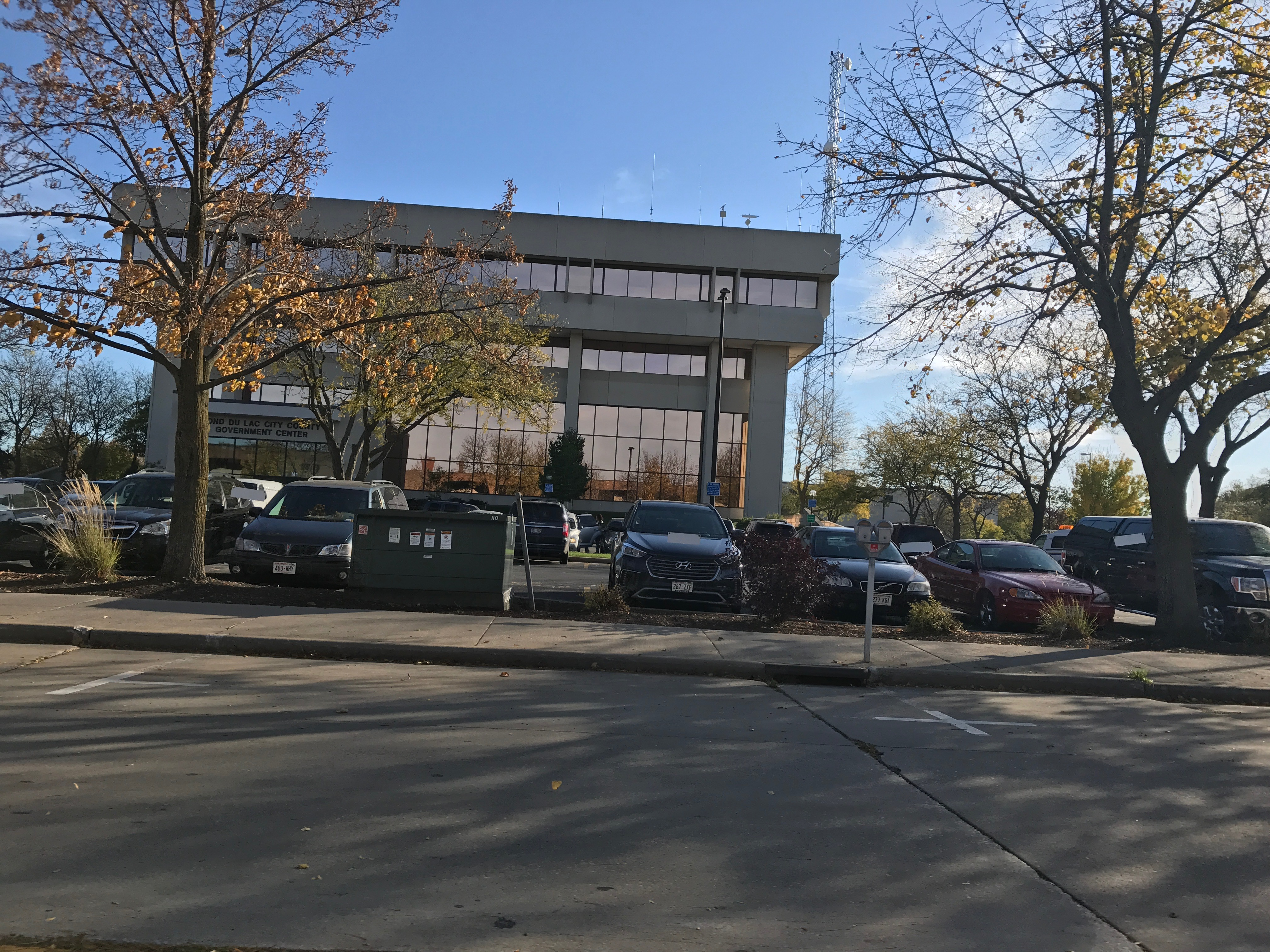 The courthouse of Fond du Lac wisconsin